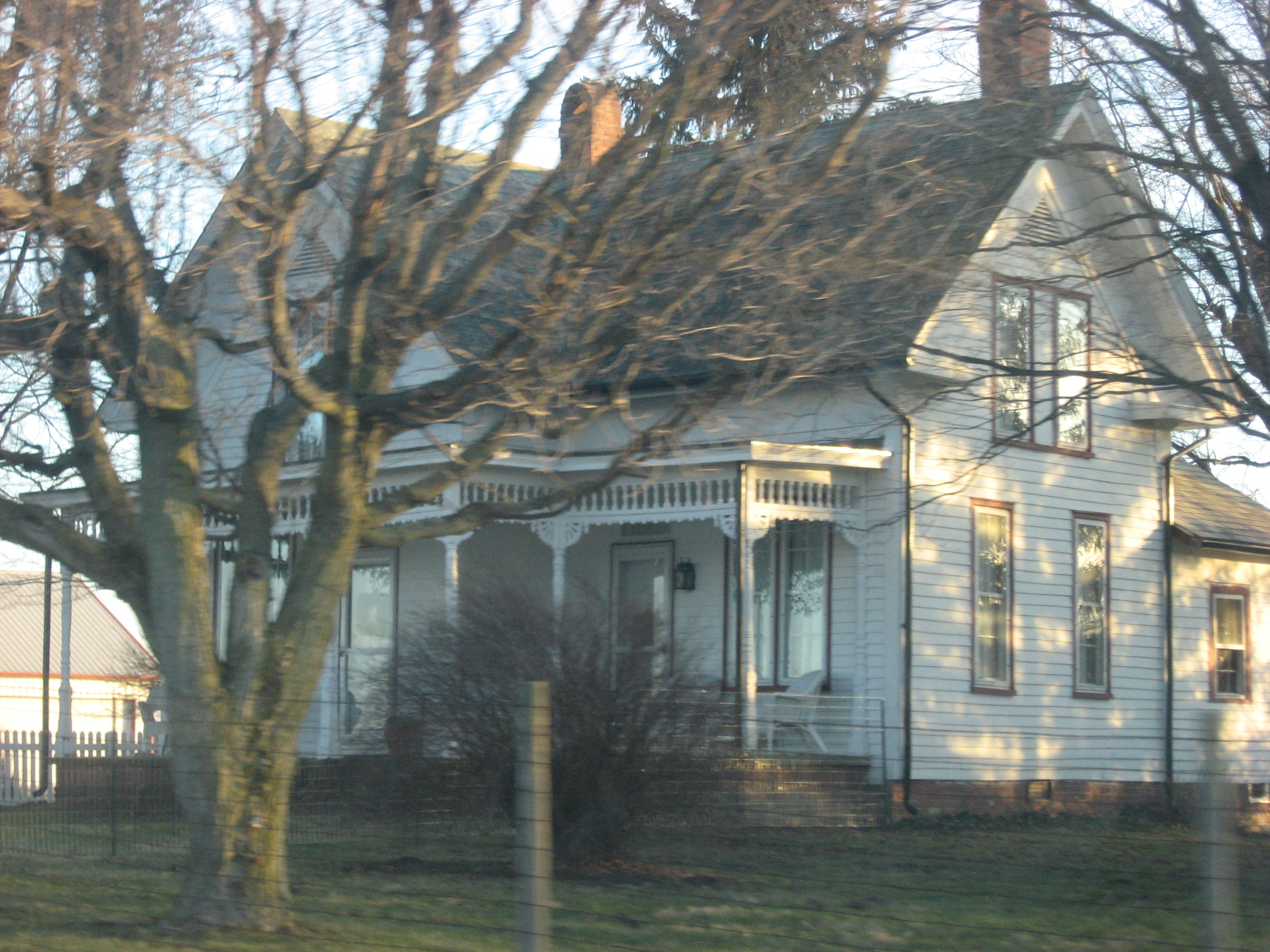 Front of the Henry F. Whitelock House, located along State Road 38 east of Markleville in Harrison Township, Henry County, Indiana, United States. Built in 1836, it is listed on the National Register of Historic Places.